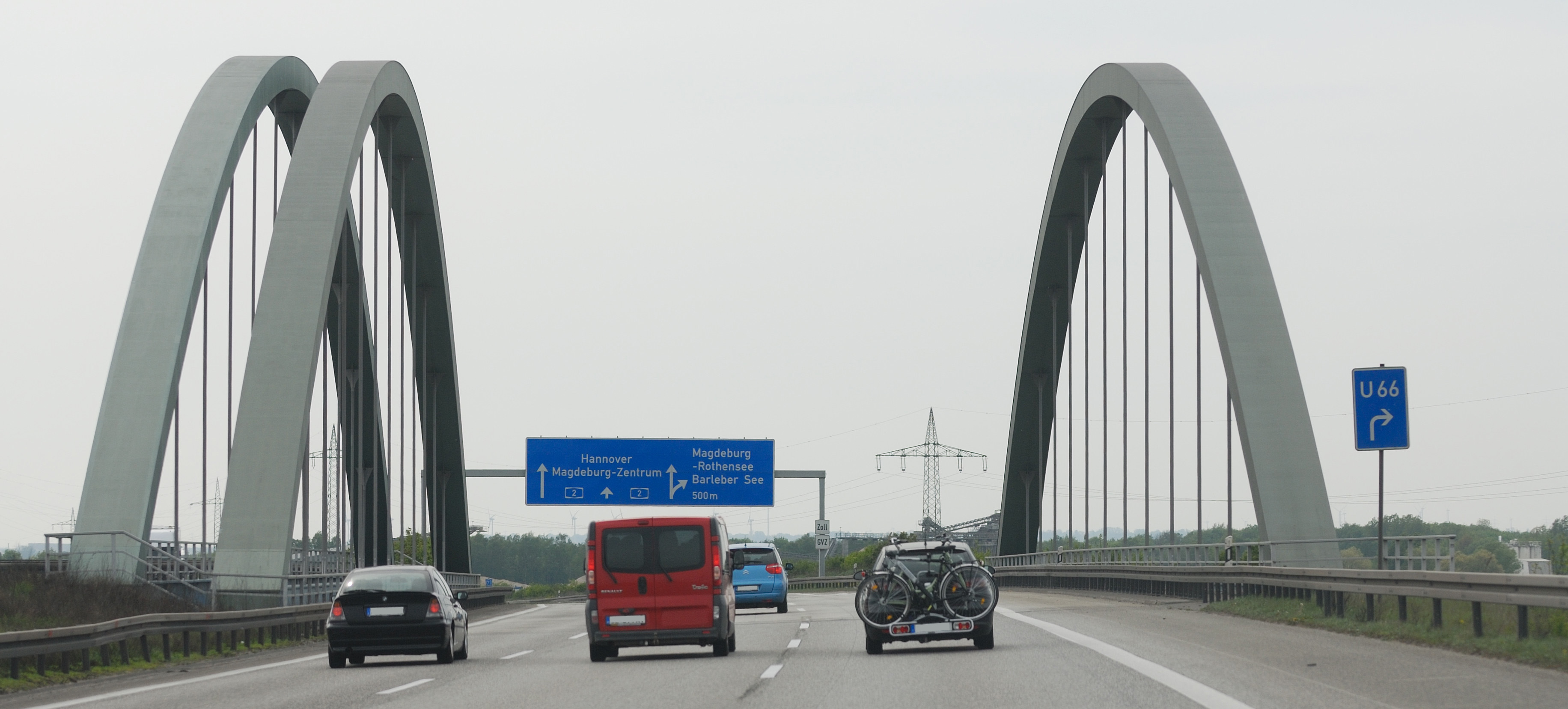 Arch bridge of the A 2 highway across the Rothensee channel near Magdeburg. Road shot looking west.